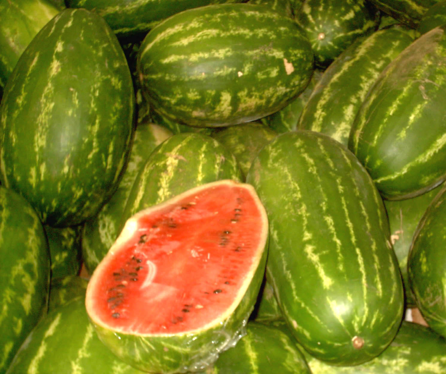 Watermelons in a local supermarket in Ensenada, Baja California, Mexico